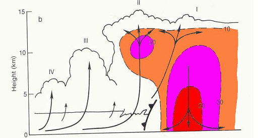 Multi-cells thunderstorms redevelopping on the gust front.